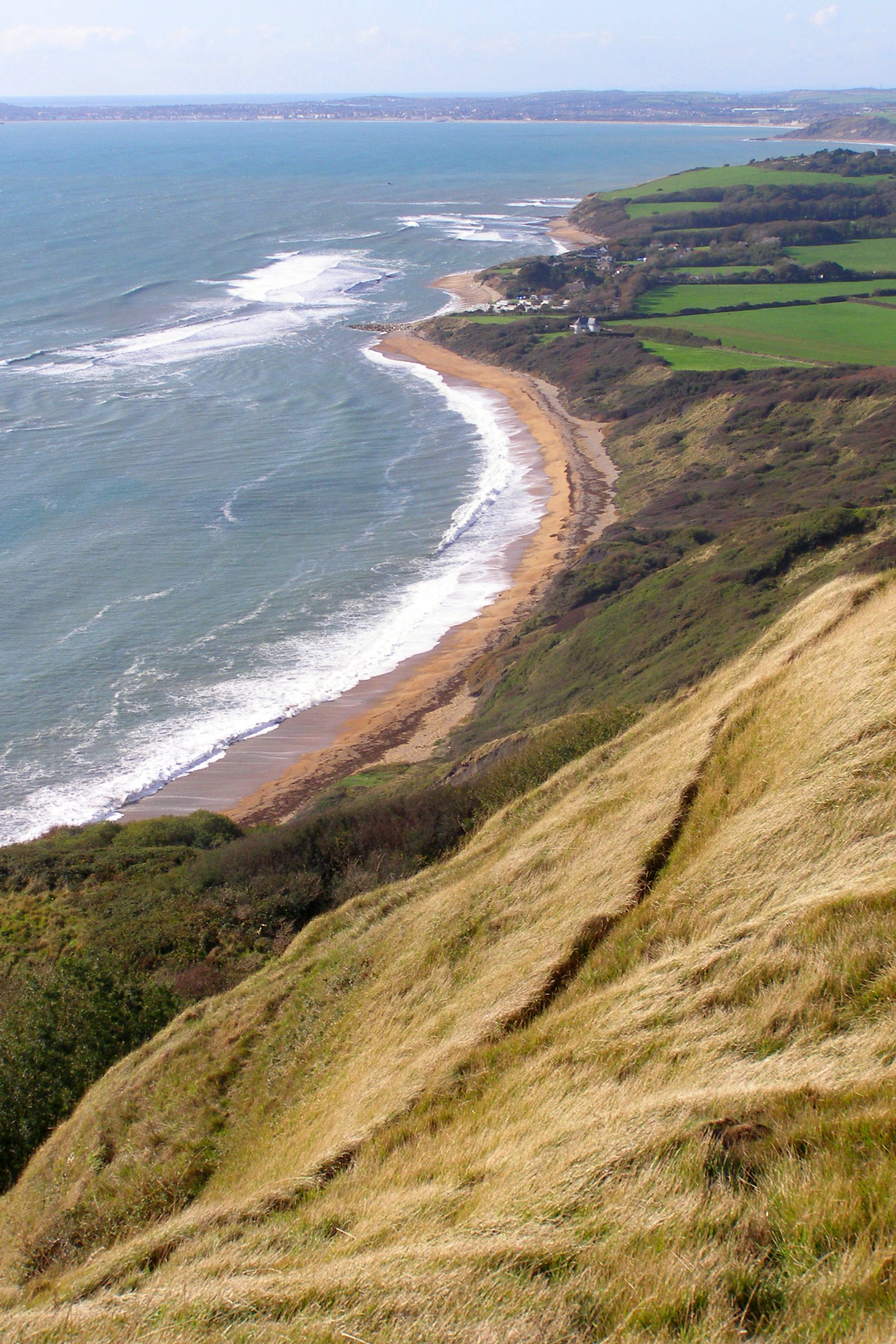 Looking down on Ringstead Bay from the top of Burning Cliff. Weymouth is in the far distance.